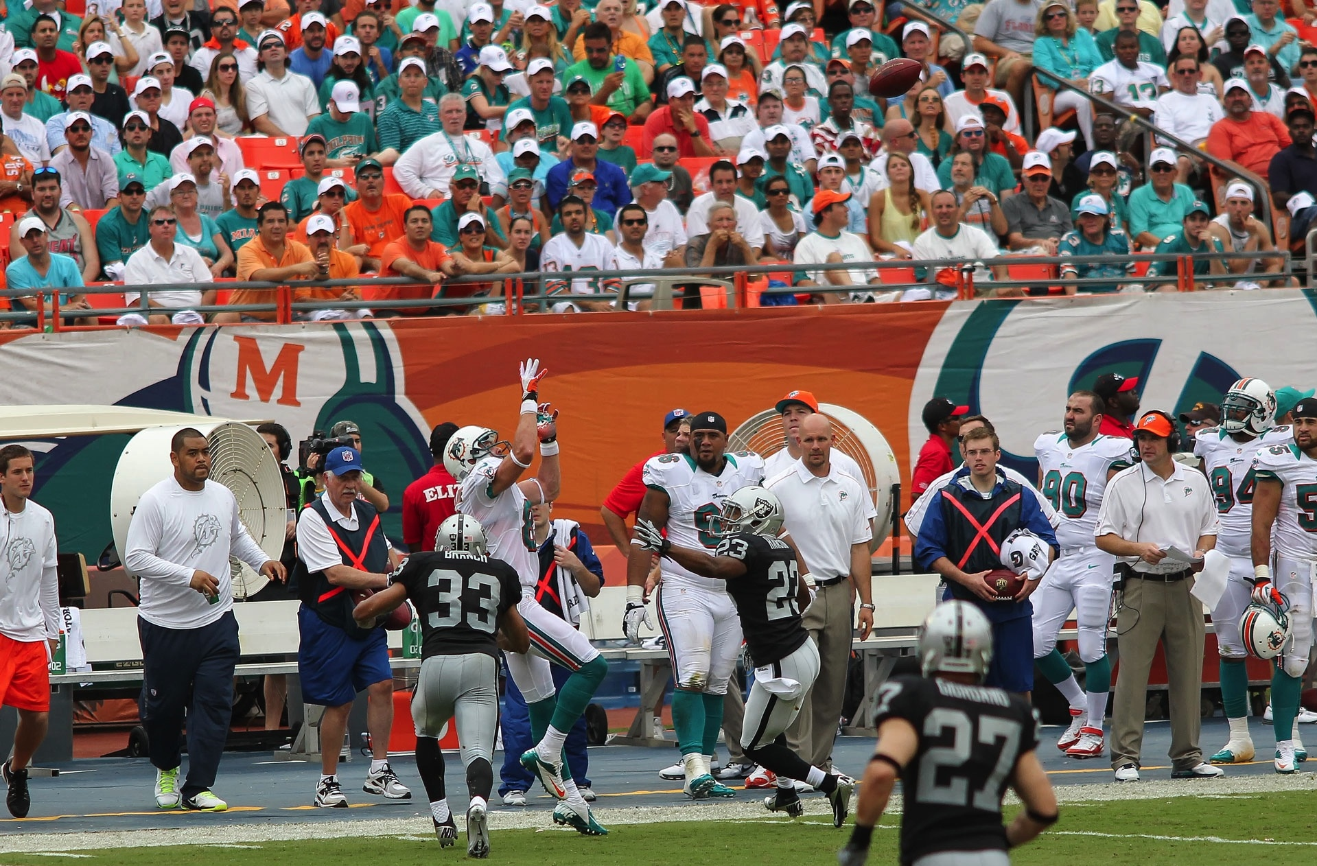 Miami Dolphins wide receiver Brian Hartline jumps to catch a pass, while Oakland Raiders defenders Tyvon Branch (#33) and Joselio Hanson (#23) chase after him.